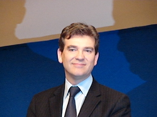 Arnaud Montebourg in 2013